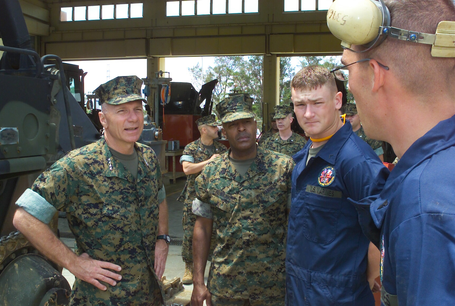 Okinawa, Japan (Apr. 16, 2003). General Michael W. Hagee, commandant of the marine corps, and sergeant major Alford McMichael of the marine corps, visit the 9th Engineer Support Battalion. Hagee visited the 3rd Marine Expeditionary Force (3rd MEF) for the first time as the commandant of the marine corps during his visit to the marine bases in Okinawa, Japan.